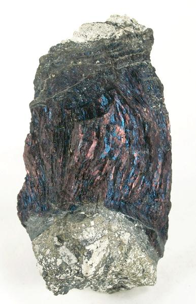 Covellite Locality: Tilva Mika deposit, Bor Mine, Bor, Bor-Majdanpek District, Serbia (Locality at ) Size: 6.5 x 3.7 x 1.8 cm. The spectacular, iridescent, magenta and neon-blue color and lustre give this vein of foliated covellite crystals sandwiched between matrix an other-worldly appearance. The largest crystal measures 4.0 cm across. Outstanding, very uncommon, two-sided material from Serbia. This covellite specimen compares favorably with the best from Butte, Montana or Summitville, Colorado. Ex. Tarnowski Collection.